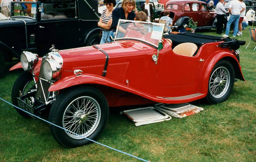 1934 Wolseley Hornet Special (DVLA) first registered 8 January 1934, 1271cc